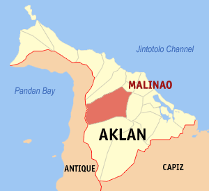 Map of Aklan showing the location of Malinao